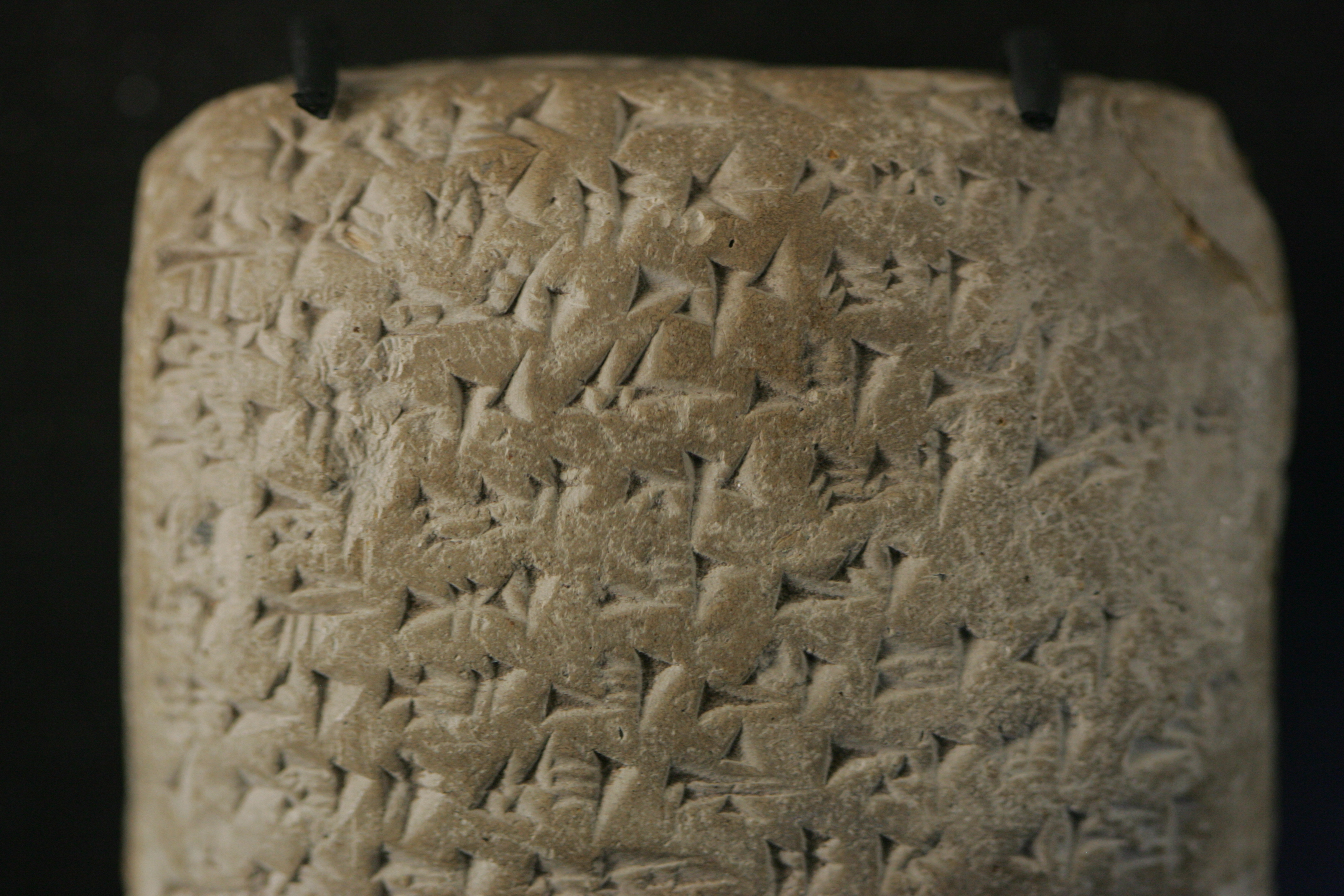 Amarna Letters, (top half, reverse of EA 365) Letter of Biridiya, prince of Megiddo, to Pharaoh; subject of harvesting by corvee workers in the city of Nuribta. Towns: City-Shunamu, and City-Yapu, also mentioned in the letter. Some of the cuneiform signs used (Akkadian language usage, for Canaanite, etc.), 6th line from top (line 20) er (ir), 2nd character; 7th line (line 21)(3rd charater from left), Sumerogram URU, for Akkadian ālu, "city", "town", specifically Town--Shu-na-ma-(ki). (Line 26 contains: Town--(Y)ia-pu-(ki)). (Note-Cuneiform signs, by line (no. 1 is line (15))) Line 1-(15)--u (and no. 1), a-mur-me, (But, Look!-(segue)) 2-(16)--LÚ.MEŠ-ha-za-nu-ta-meš 3-(17)--ša, it-ti-ia 4-(18)--la-a, ti-pu-šu Terra cotta, i.e. Clay tablet. Current location (Inventory)Louvre Museum Native nameMusée du LouvreLocationParisCoordinates48° 51′ 37″ N, 2° 20′ 15″ E Established1793Website control : Q19675 VIAF: 257711507 ISNI: 0000 0001 2260 177X ULAN: 500125189 LCCN: n80020283 NLA: 35912436 WorldCat Sully, Rez-de-chaussée, Levant, Salle D, Vitrine 4 : L'âge du bronze récent 1550 - 1150 avant J.-C.Accession numberAO 7098. Also known as EA 365.Credit lineAcquired in 1918Referenceslouvre.frSource/PhotographerRama